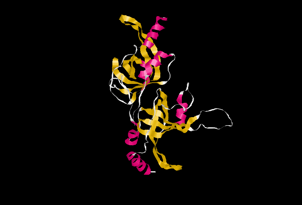 Crystal Structure Of Human Tpp1.